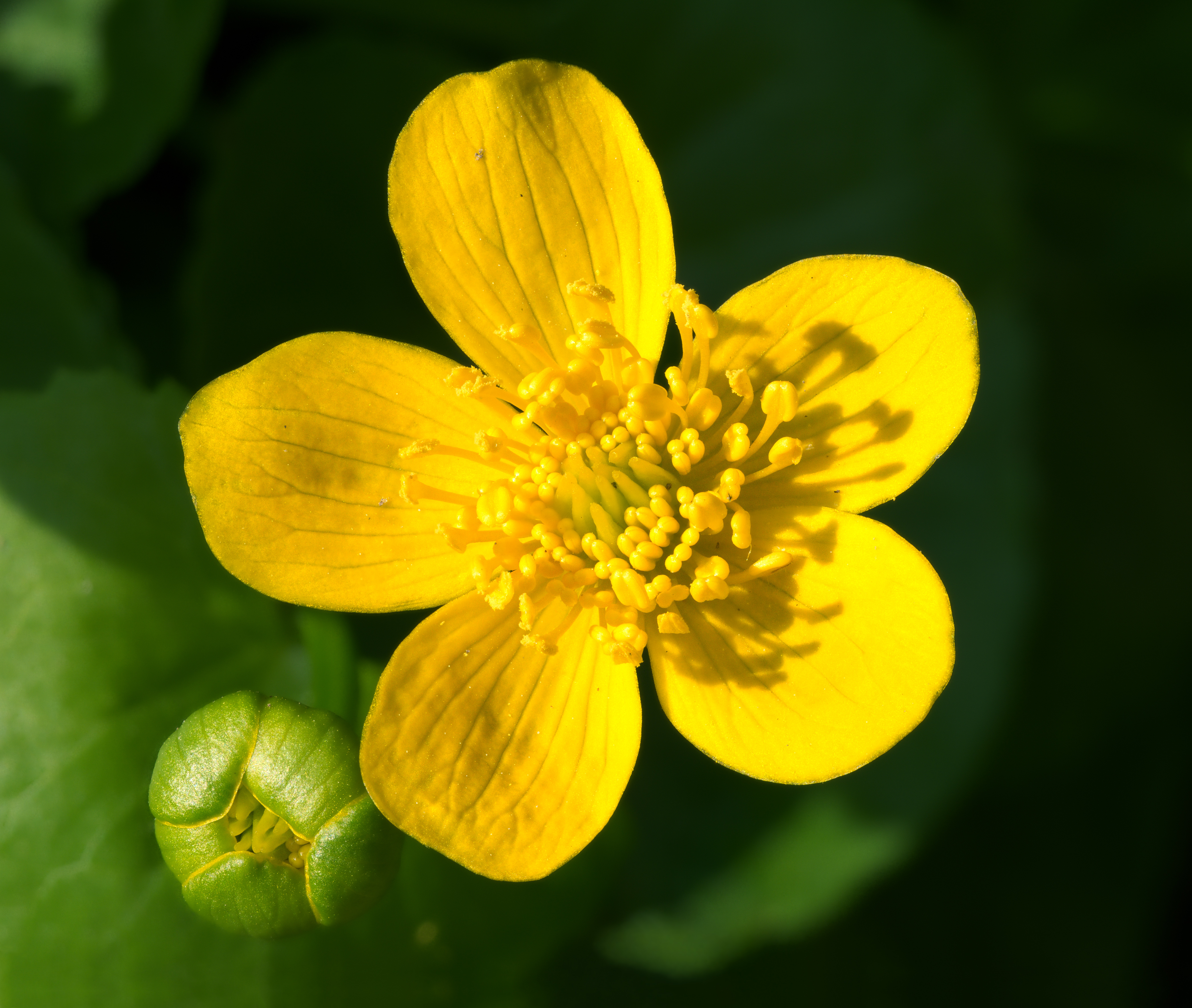 Caltha palustris (family Ranunculaceae), Ljubljana Botanical Garden, Slovenia. Diameter of flower is around 2.5 - 3 cm. Stacked image of 32 shots.